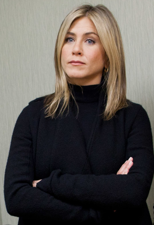 Actress Jennifer Aniston and film producer Kristin Hahn during a tour of the Inova Breast Care Center in Alexandria, Va., Oct. 3, 2011. Aniston and Hahn were in Washington for a screening of their breast cancer-related film, Five.